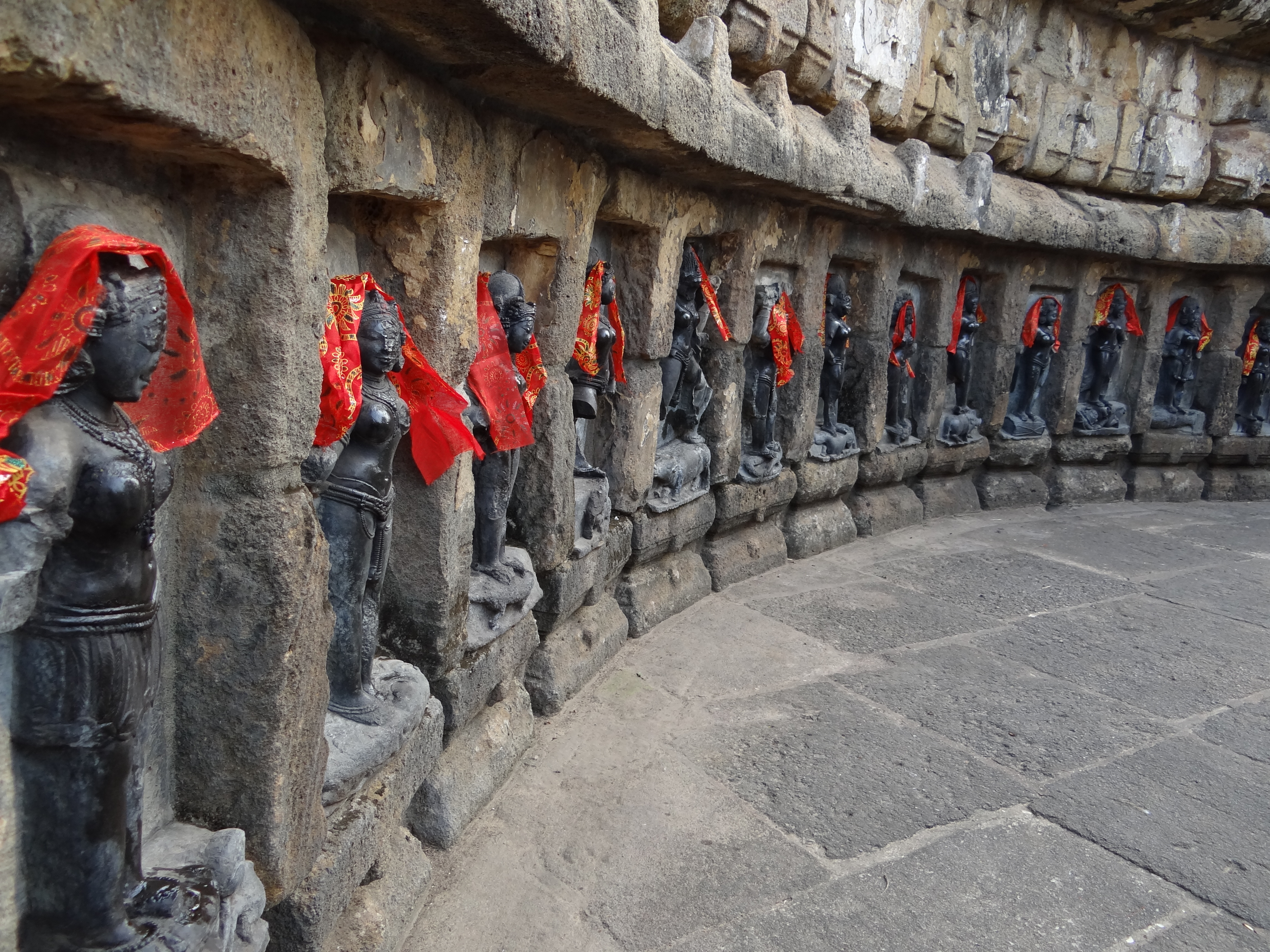 Chausath Yogini temple known as Mahamaya temple